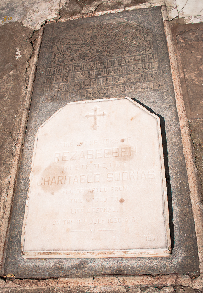 The oldest grave of Kolkata.The tomb of Rezabeebeh,who passed away on 11th July,1630.